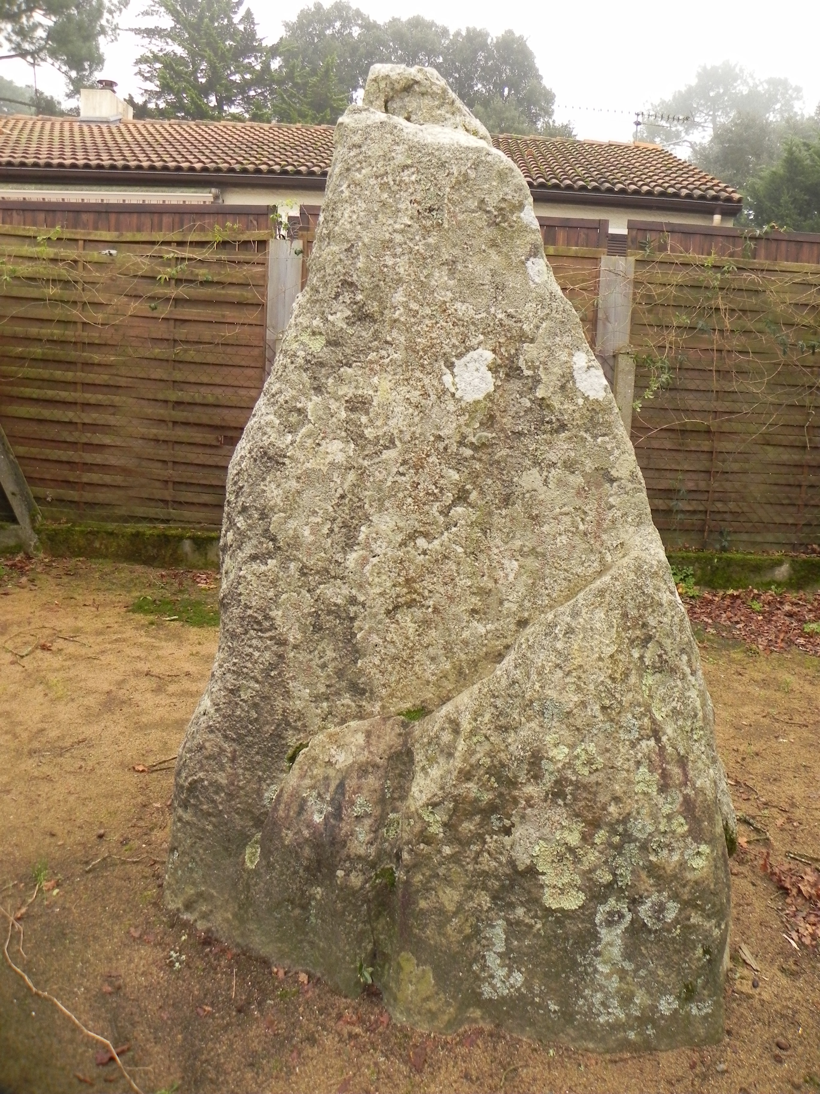 Menhir des Pierres Couchées, Saint-Brévin-les-Pins, Loire-Atlantique, France.